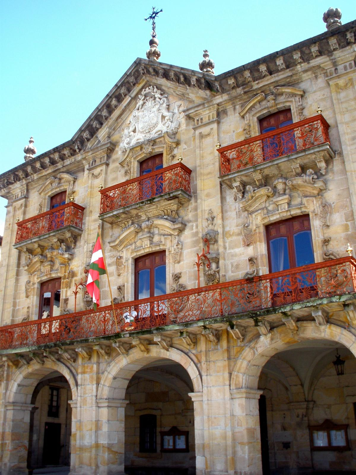 Ayuntamiento de Oñate, Guipúzcoa (País Vasco, España)